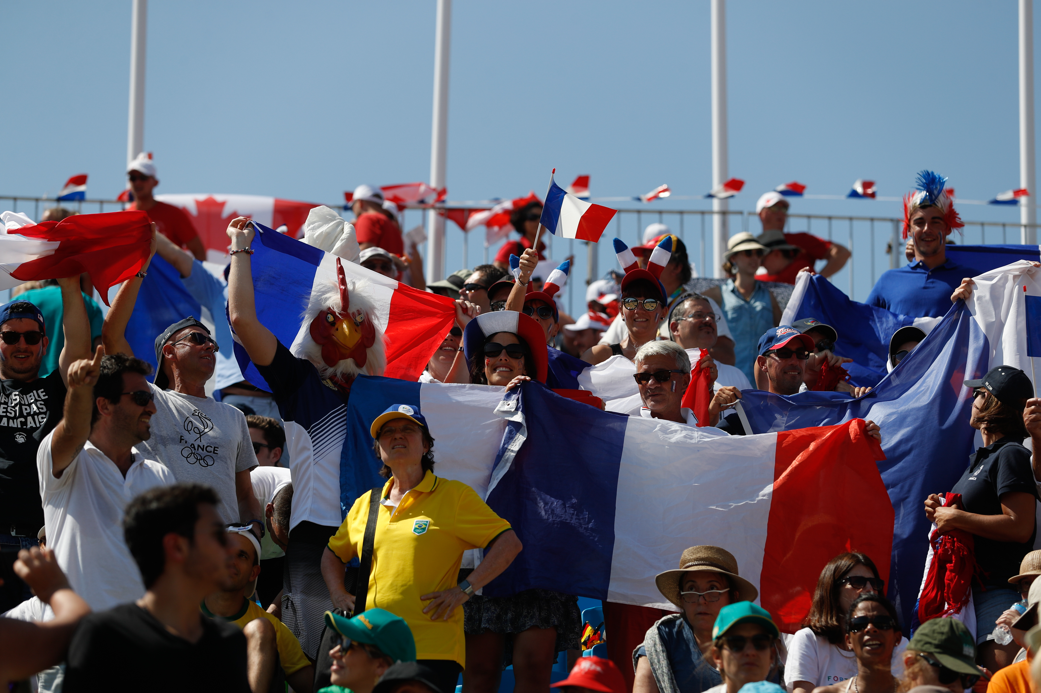 Rio de Janeiro - Cavaleiro Doda Miranda na apresentação de saltos do hipismo em que a equipe brasileira terminou na 4ª colocação geral nos Jogos Olímpicos Rio 2016, em Deodoro. ( Fernando Frazão/Agência Brasil)